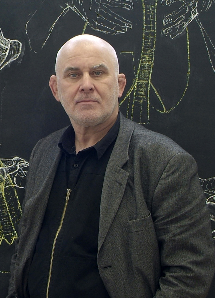 Picture of Sándor Dóró